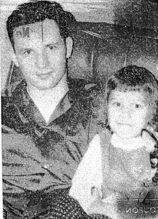 Dean Corll, serial killer, and younger half-sister, circa 1960.